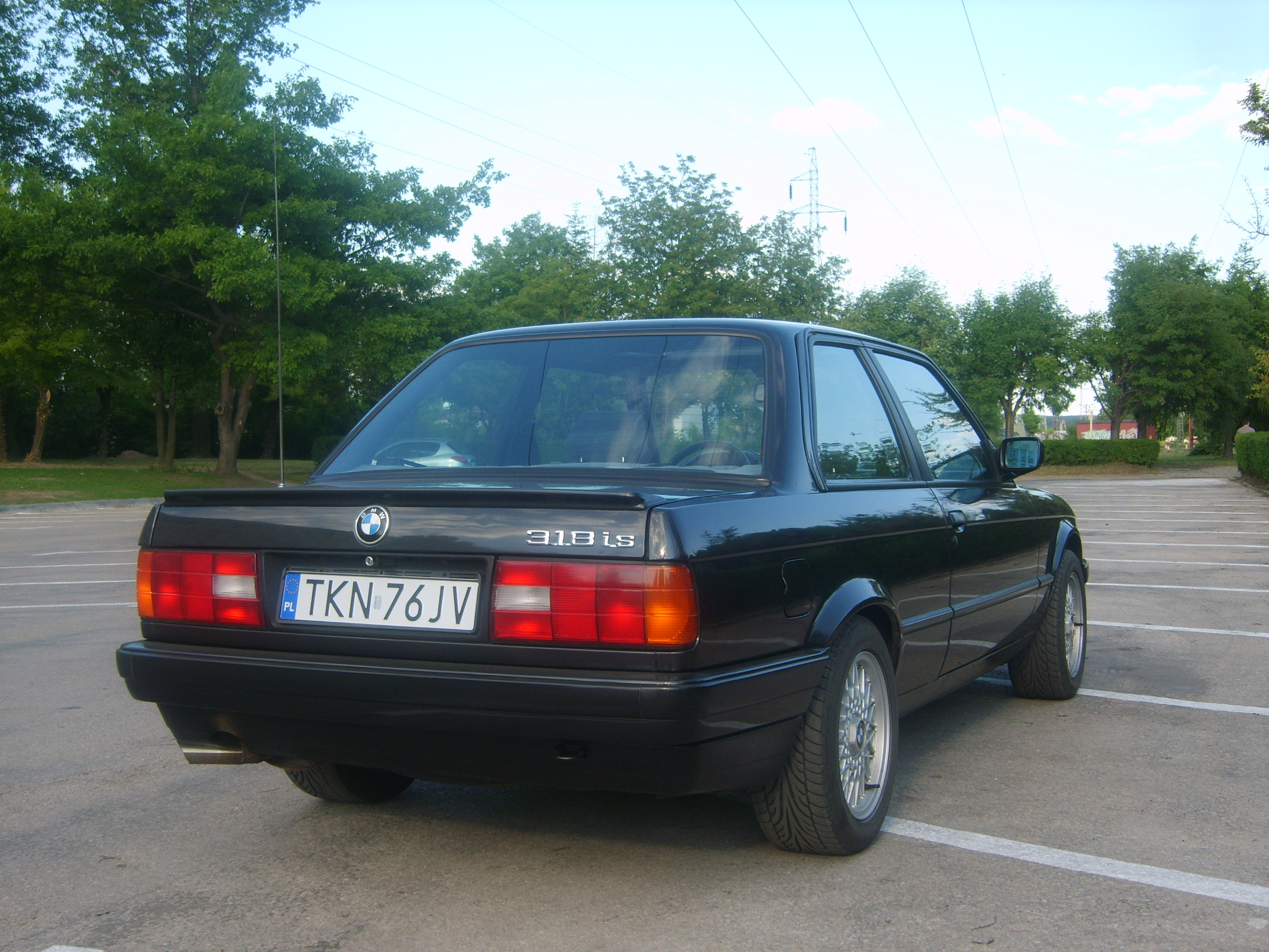 BMW E30 1.8is